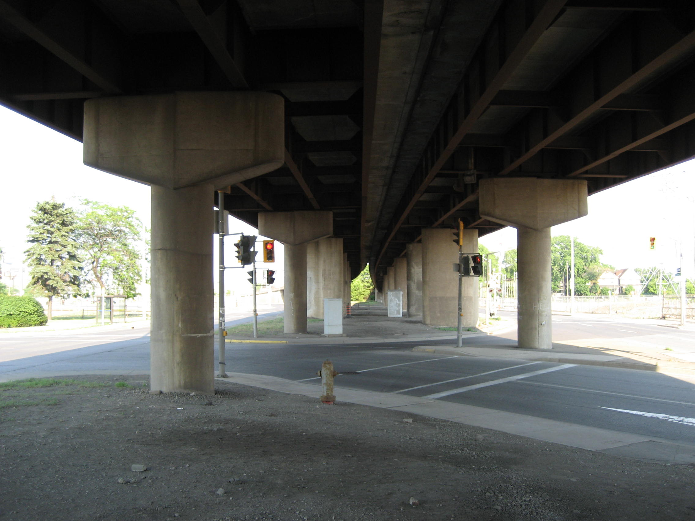 North End Industrial walking tour, view from below Burlington Street ramp, Hamilton, Ontario